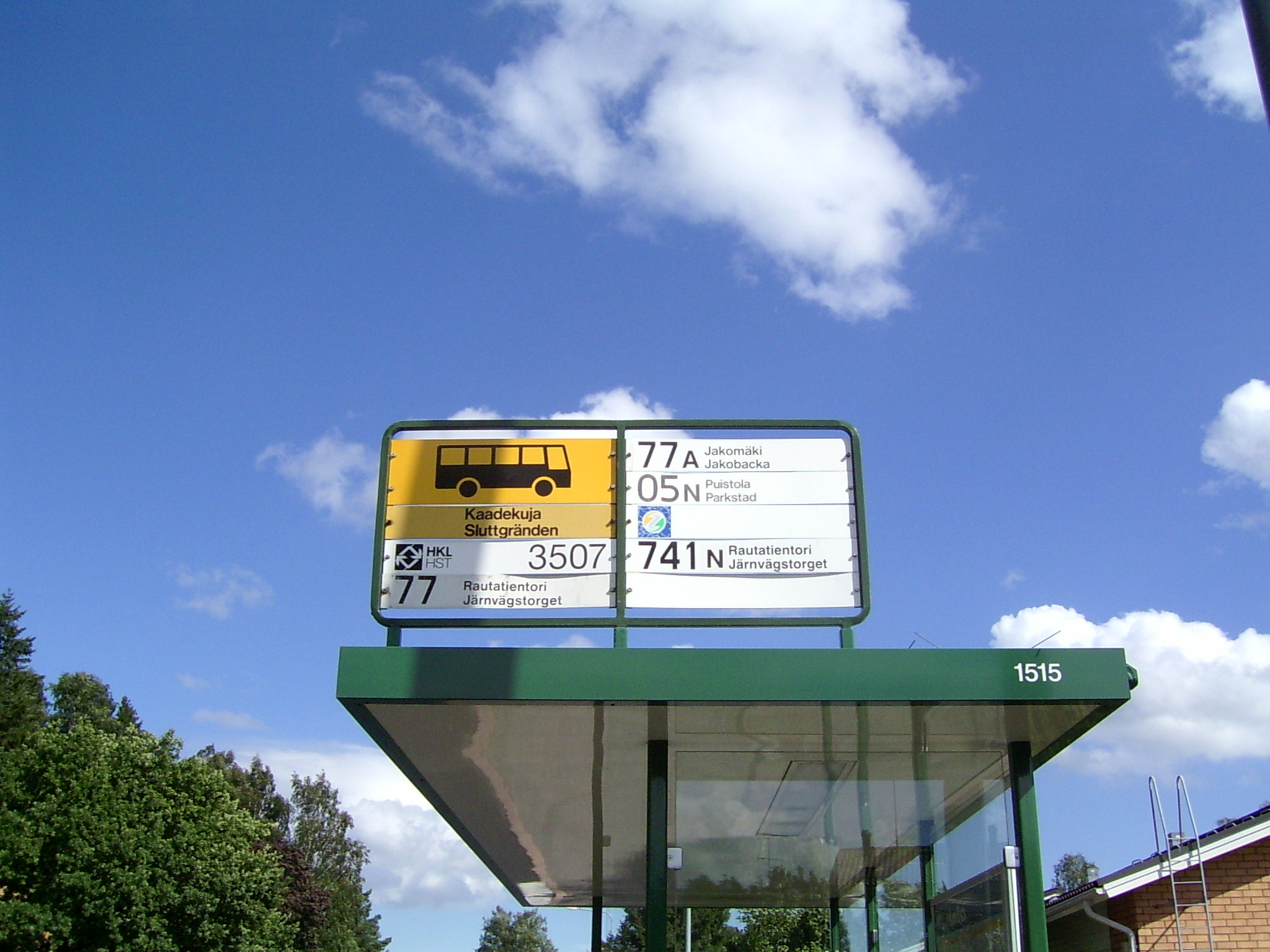 Kaadekuja (to Rautatientori) bus stop sign (Jakomäki, Helsinki)